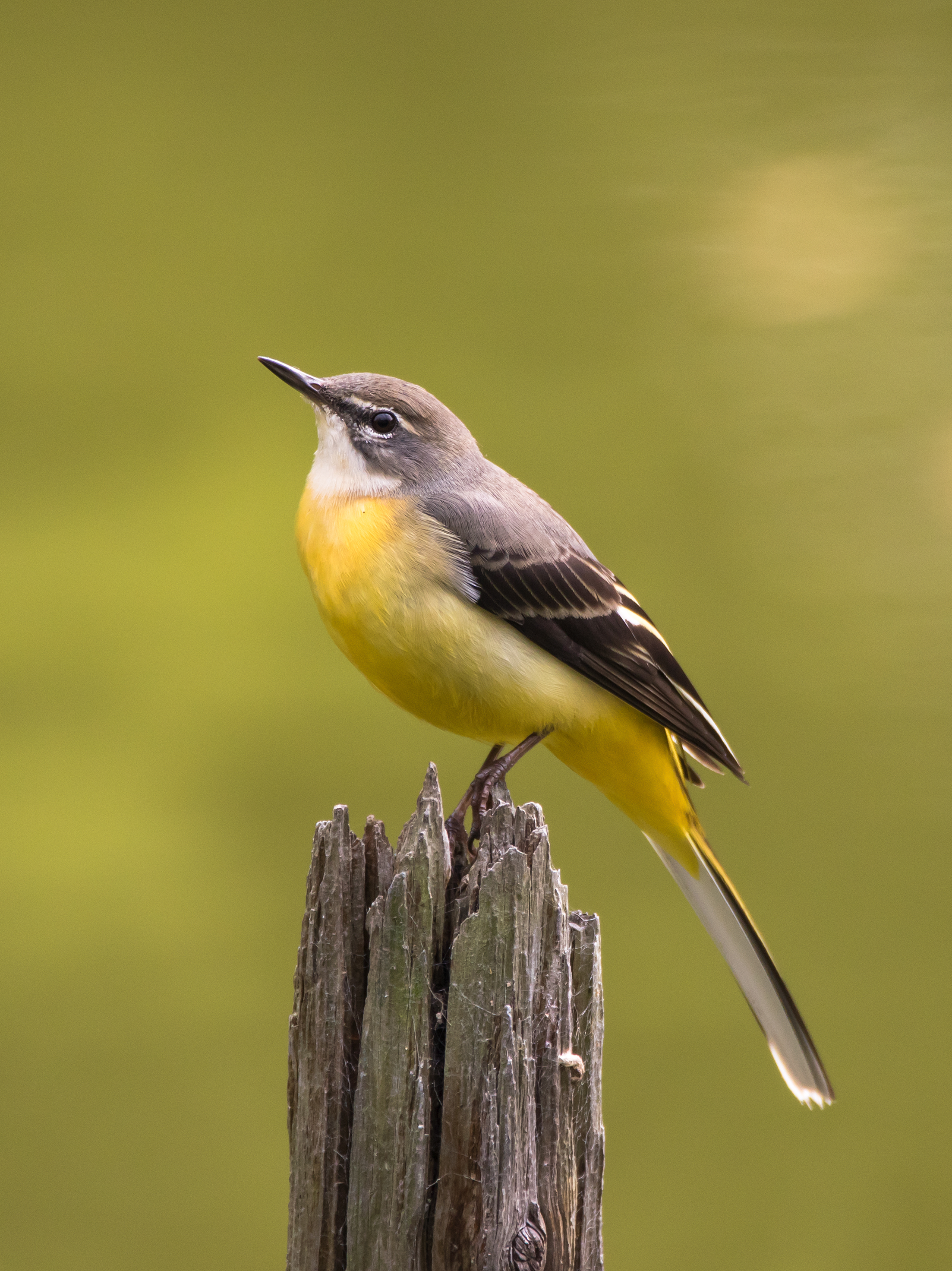 Grey wagtail at Tennōji Park in Osaka.